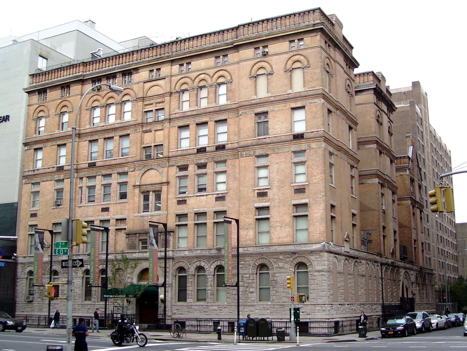 The original building of the New York Eye and Ear Infirmary at Second Avenue and East 13th Street, Manhattan, New York City. Built in 1856, rebuilt in 1893, includes the Schermerhorn Pavillion designed by Stanford White and opened in 1902.